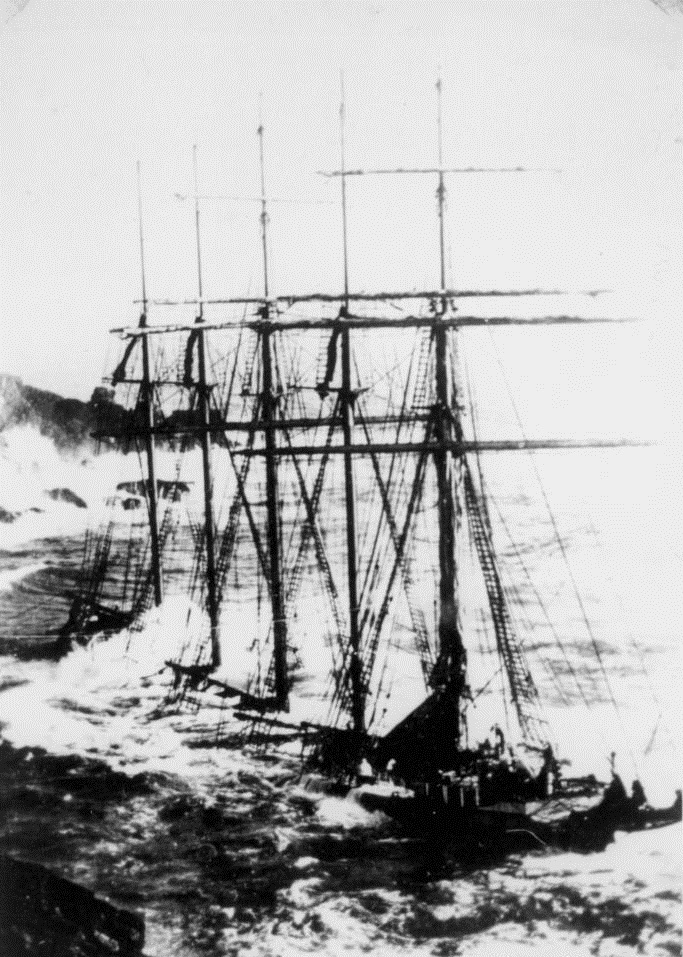 Adolf Vinnen wrecked near Hot Point at The Lizard, Cornwall in Great Britain on her maiden voyage in 1923. "The five "Vinnen" were built by Krupp for Vinnen, Bremen, in 1921-1922. They were rigged with square top- and topgallant sails on the fore and mizzen masts ... Adolf Vinnen (1922), Krupp, Germany."[1] ↑ Bruzelius, Lars (1998-12-28). Sailing Ships:Five-masted schooners with aux. machinery. The Vinnen Schooners. The Maritime History Virtual Archives. Retrieved on March 17, 2011. Publisher: John Oxley Library, State Library of QueenslandDescription: Digital format: image/jpeg ; Original format: copy print : b&wIdentifier: Image number: 127976